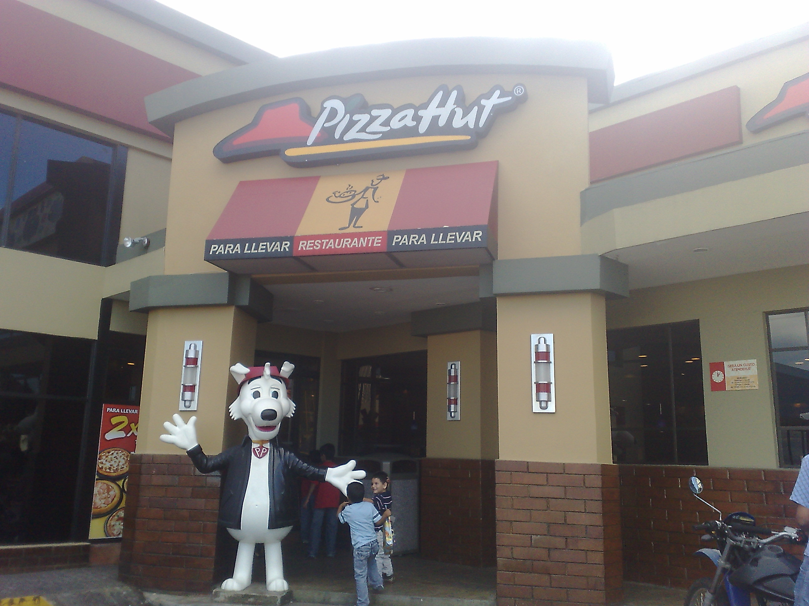 Pizza Hut in El Salvador